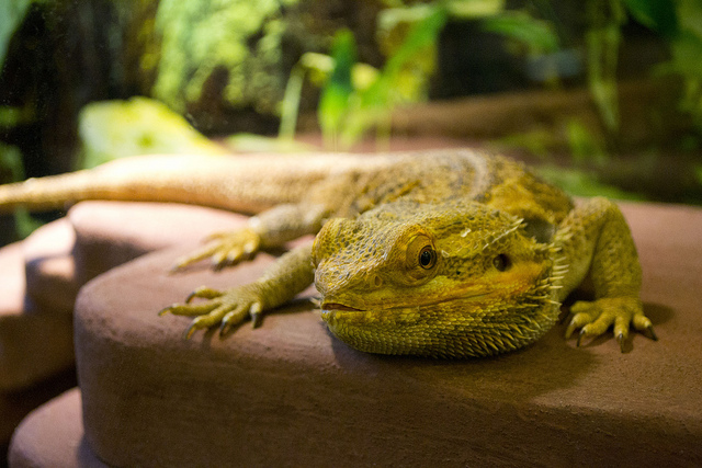 WonderLab invites audiences of all ages to learn about creatures and critters at our exciting exhibits.